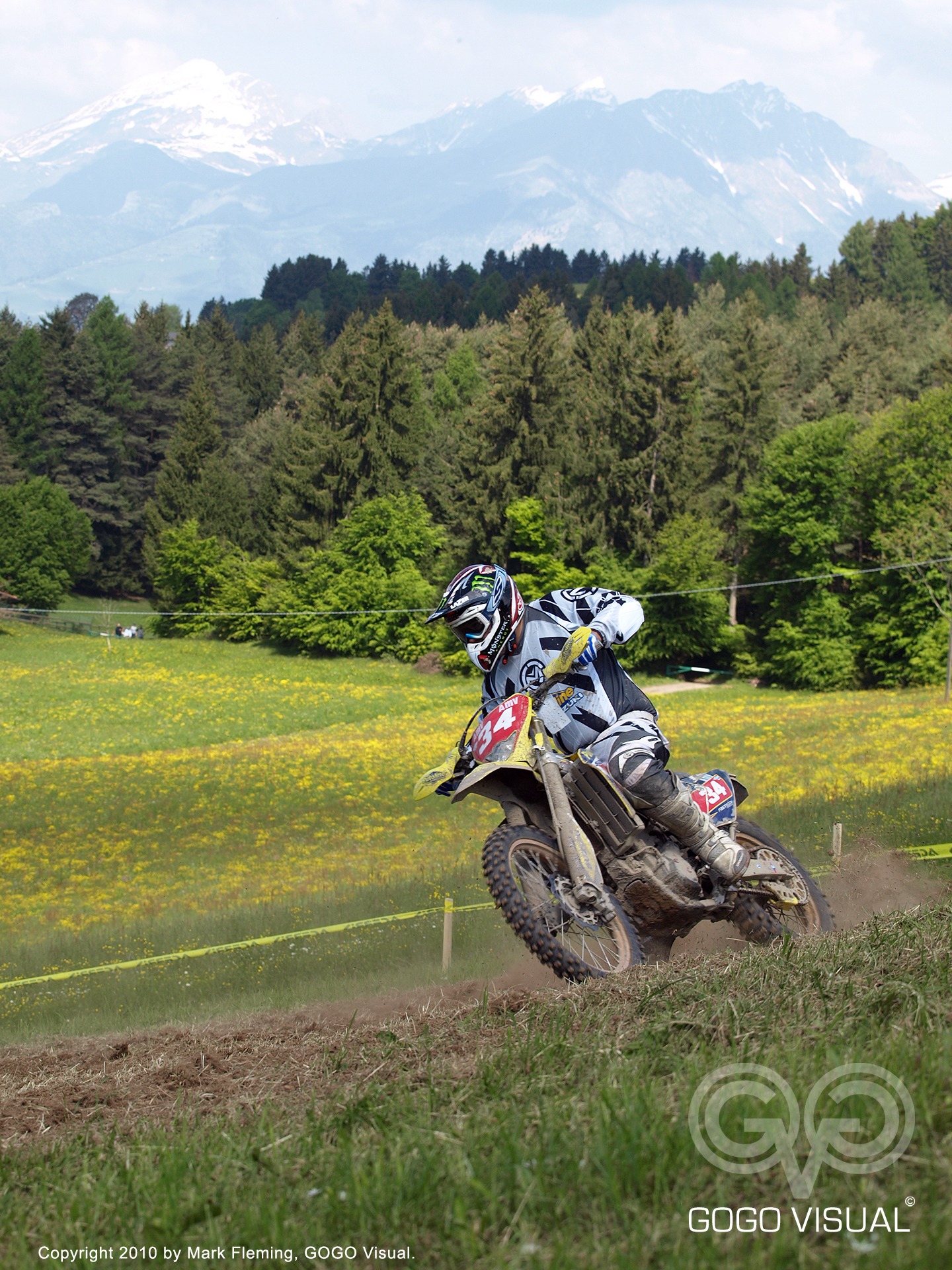 E2 - Thomas Sagar (UK, Suzuki) at the 2010 MAXXIS FIM Enduro World Championship GP of Italy, in Lovere (41st Valli Bergamasche).